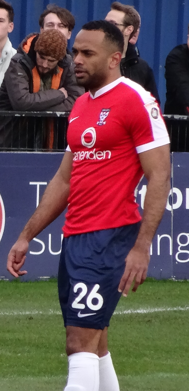 Lanre Oyebanjo playing for York City against Brackley Town at Bootham Crescent, York on 25 February 2017